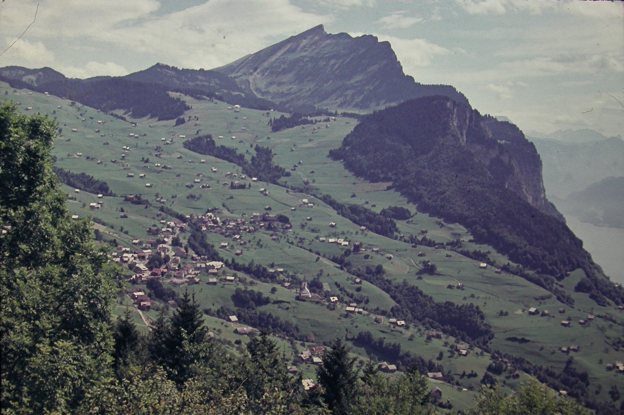 Amden in 1956